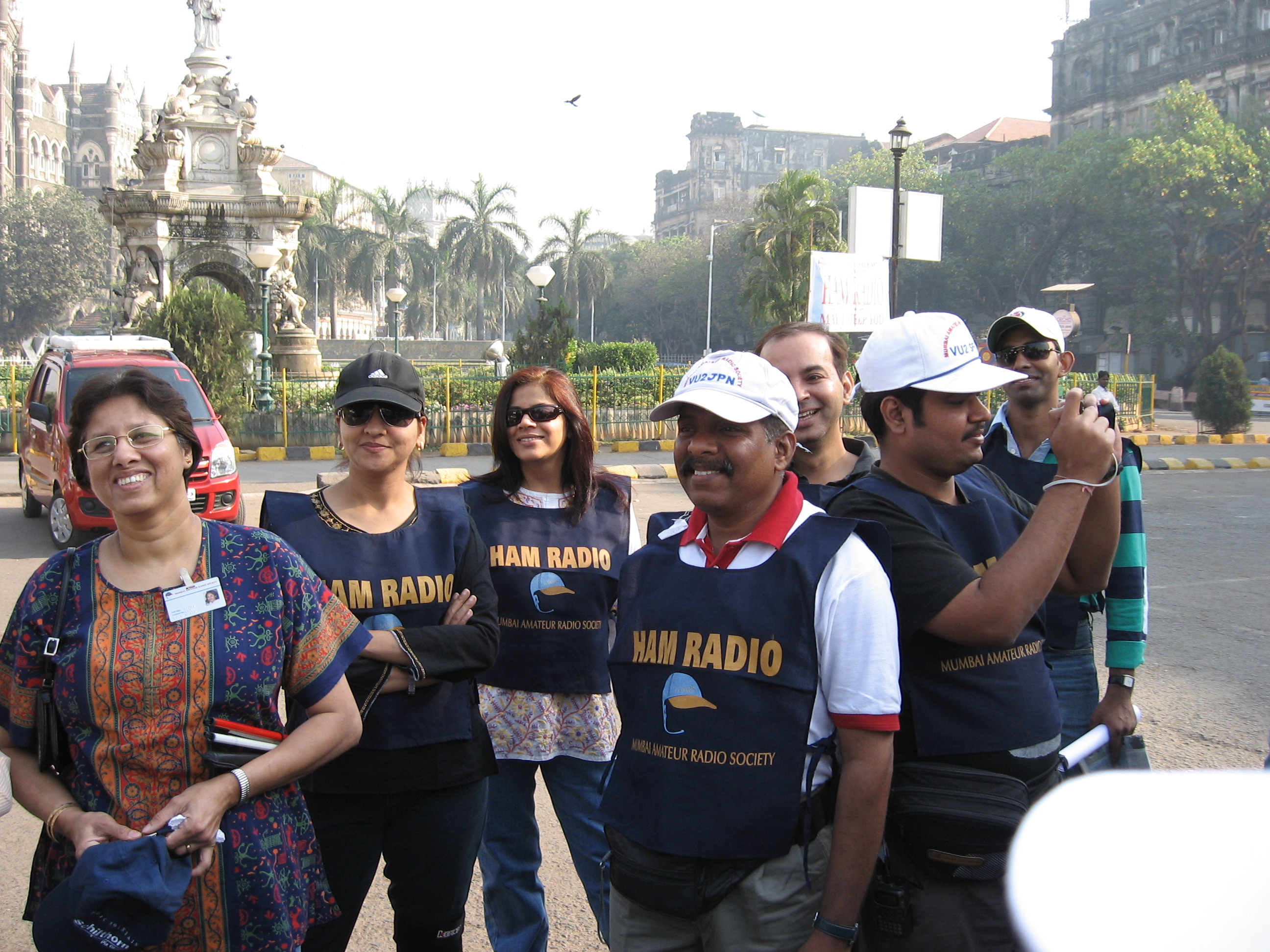 Amateur radio operators at a fox hunt in Mumbai